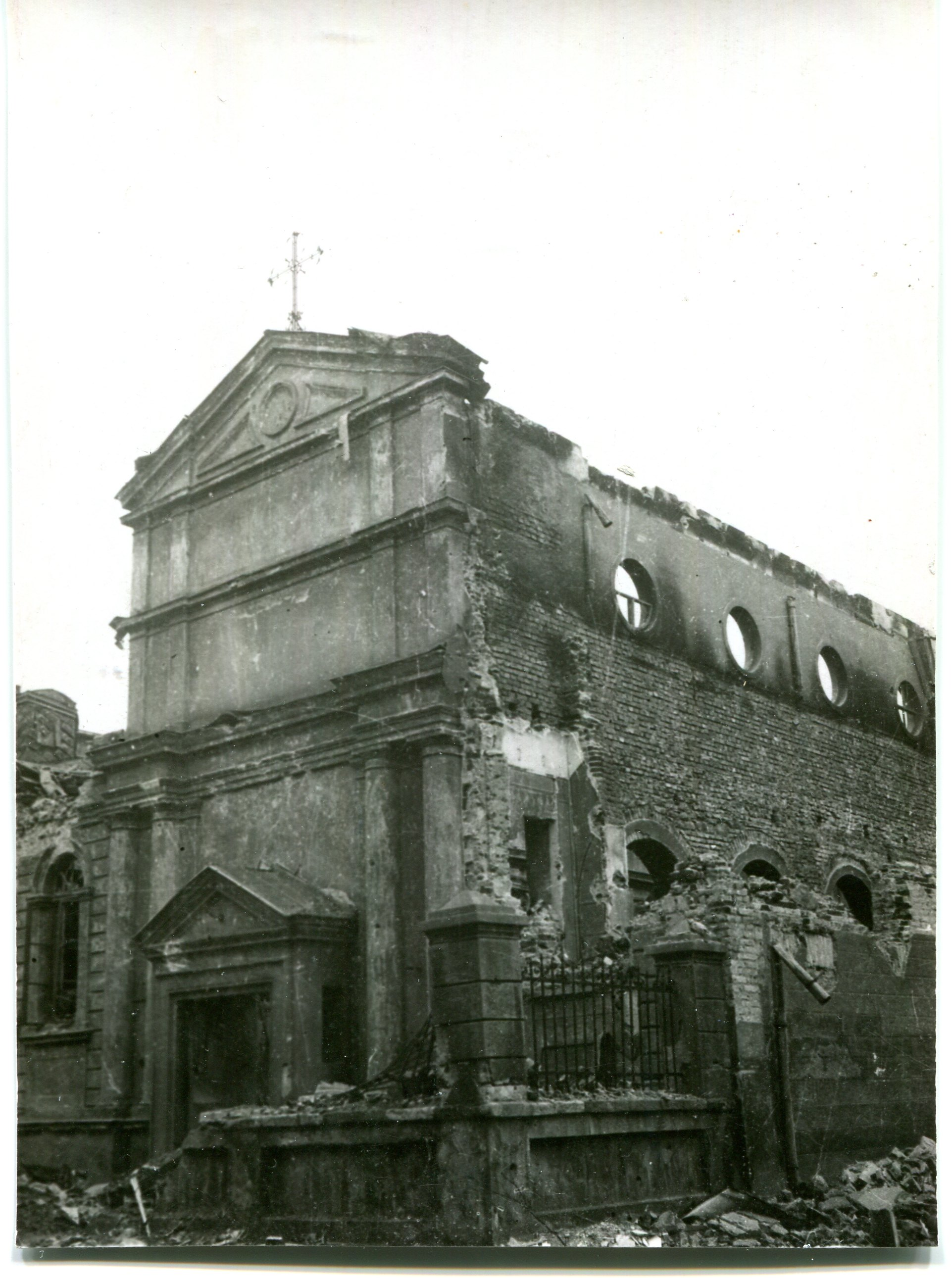 Roman-Catholic St. Joseph church in Sofia after air bombardments of the city by the Allies in 1944